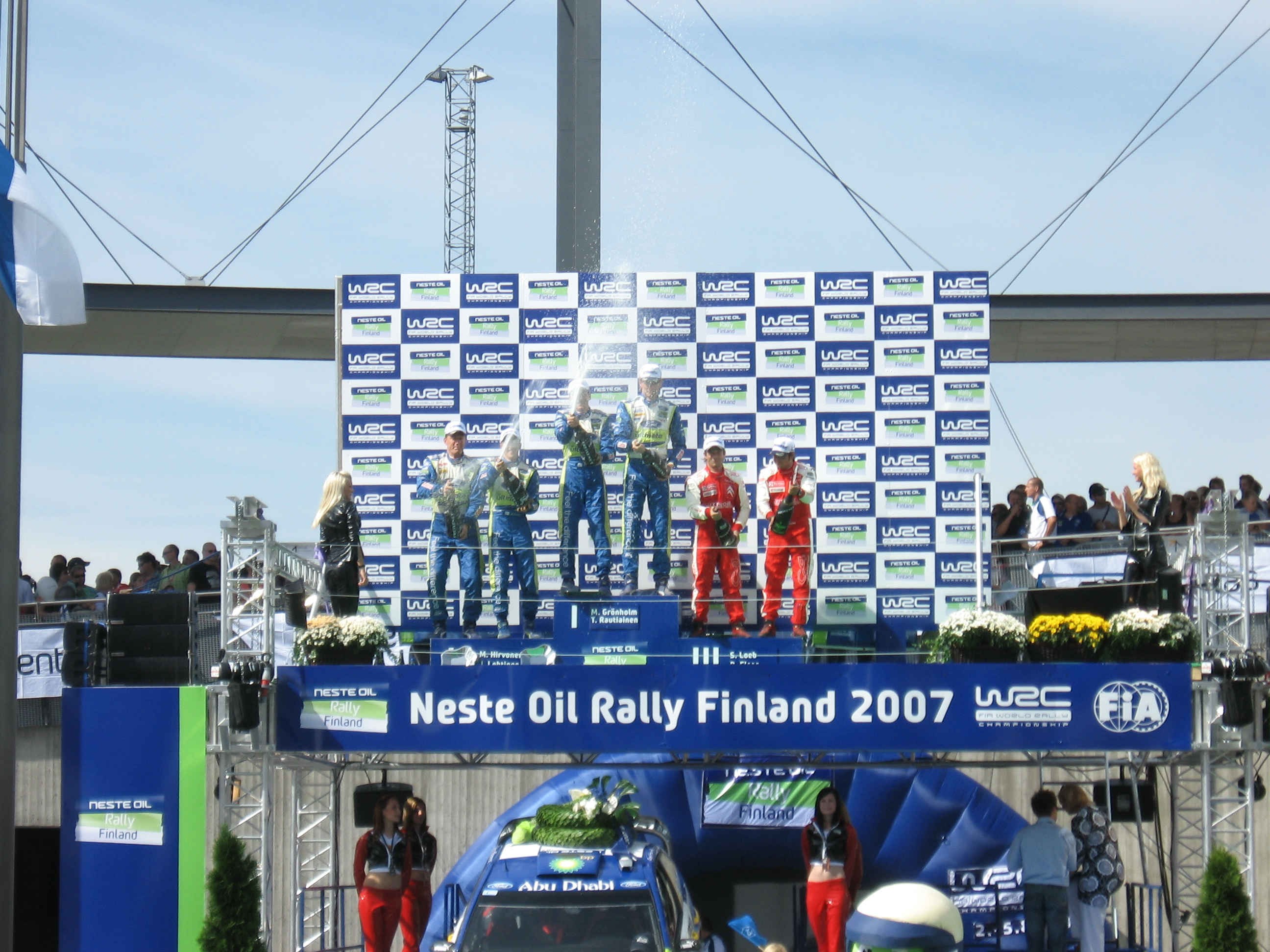 The podium ceremony of the 2007 Rally Finland.